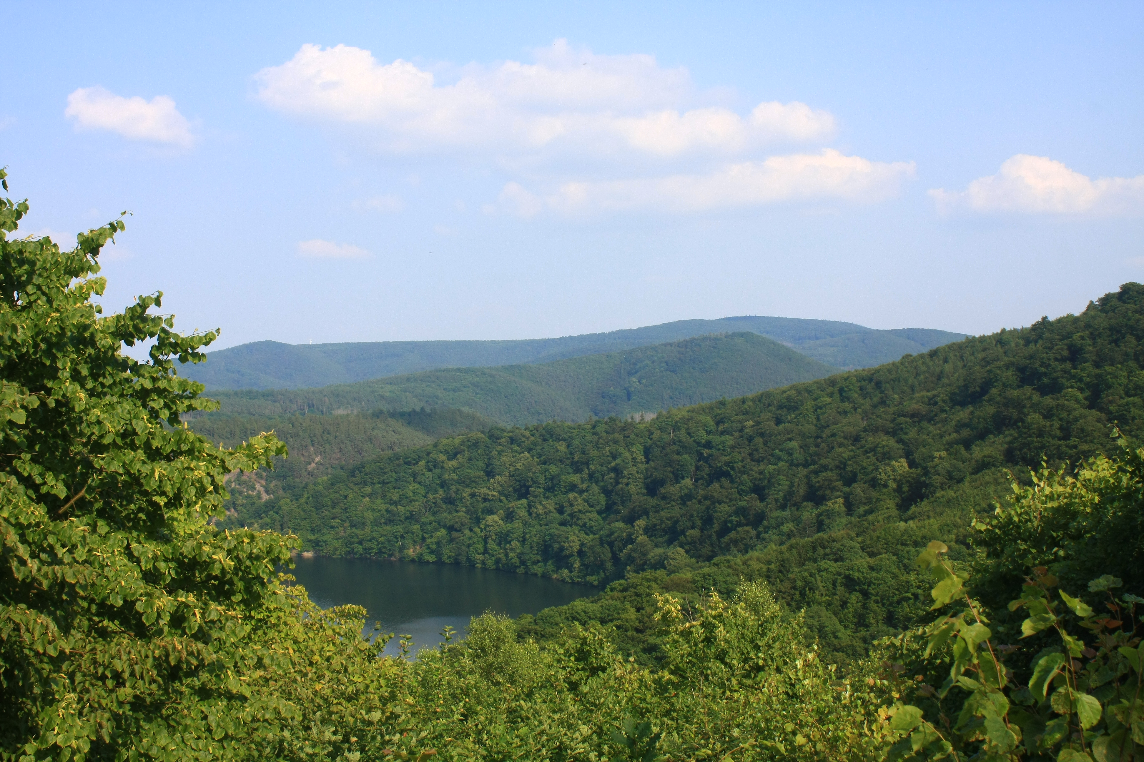 Kellerwald-Edersee National Park, View from the Ringelsberg near Asel-Süd over a part of the Edersees in the direction East-Southest, Mountains in the Background: Arensberg with Wooghölle, Bloßenberg, Daudenberg, Dicker Kopf, Ochsenwurzelskopf, Burberg; Waldeck-Frankenberg district, Hesse, Germany